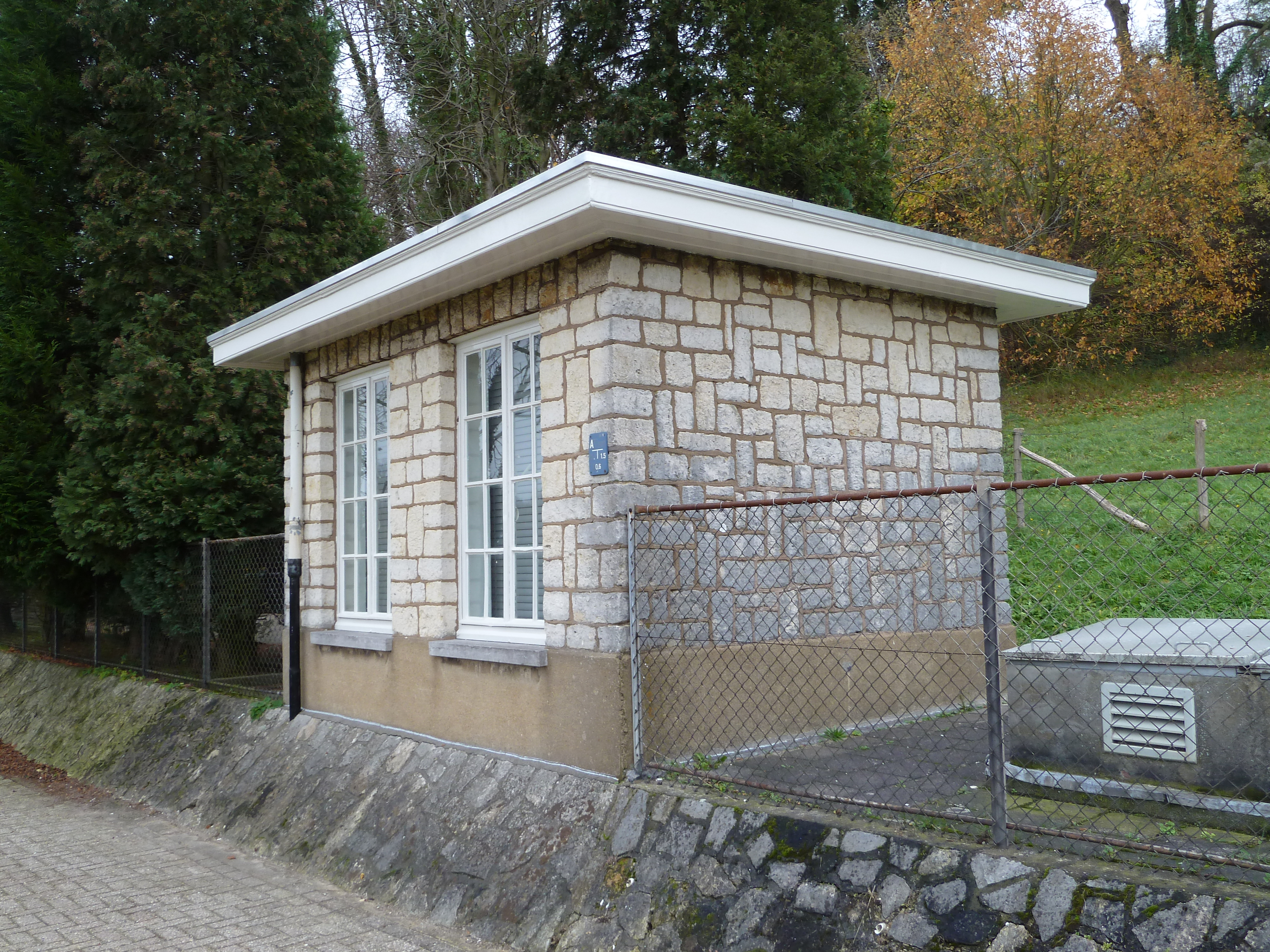 Pumpbuilding 1 in Terveurt, Klimmen, Limburg, the Netherlands